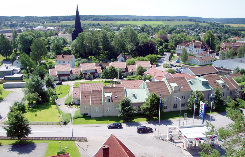 Picture of the town of Skene in Sweden